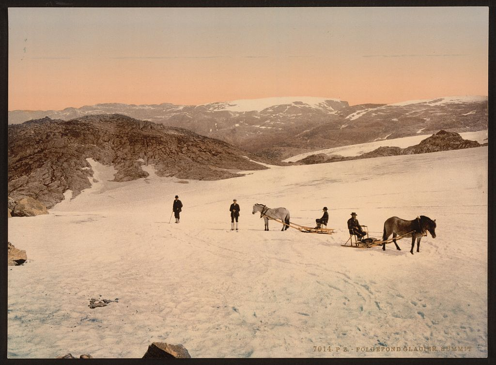 Horses, sleds and men at the Folgefonn glacier. Original caption: [Folgefond Glacier, Hardanger Fjord, Norway] [between ca. 1890 and ca. 1900]. 1 photomechanical print : photochrom, color. Notes: Title from the Detroit Publishing Co., Catalogue J--foreign section. Detroit, Mich. : Detroit Publishing Company, 1905. Print no. 7014. Forms part of: Landscape and marine views of Norway in the Photochrom print collection. Subjects: Norway--Hardangerfjord. Format: Photochrom prints--Color--1890-1900. Repository: Library of Congress, Prints and Photographs Division, Washington, D.C. 20540 USA, Part Of: Landscape and marine views of Norway (DLC) 2001699563 More information about the Photochrom Print Collection is available at Persistent URL: Call Number: LOT 13432, no. 032 [item]